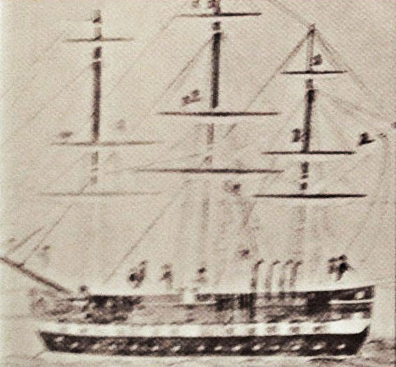 French ship in Ryukyu in 1846